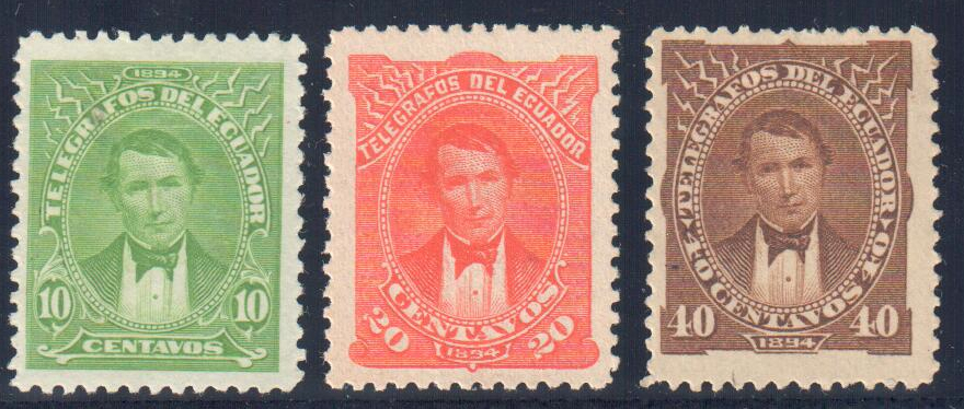 Ecuador 1894 mint telegraph stamp set. Yvert T13-15. Depicting Rocafuerte, inscribed 1894 at top or bottom. Engraved by Hamilton Banknote Company, Perf 12